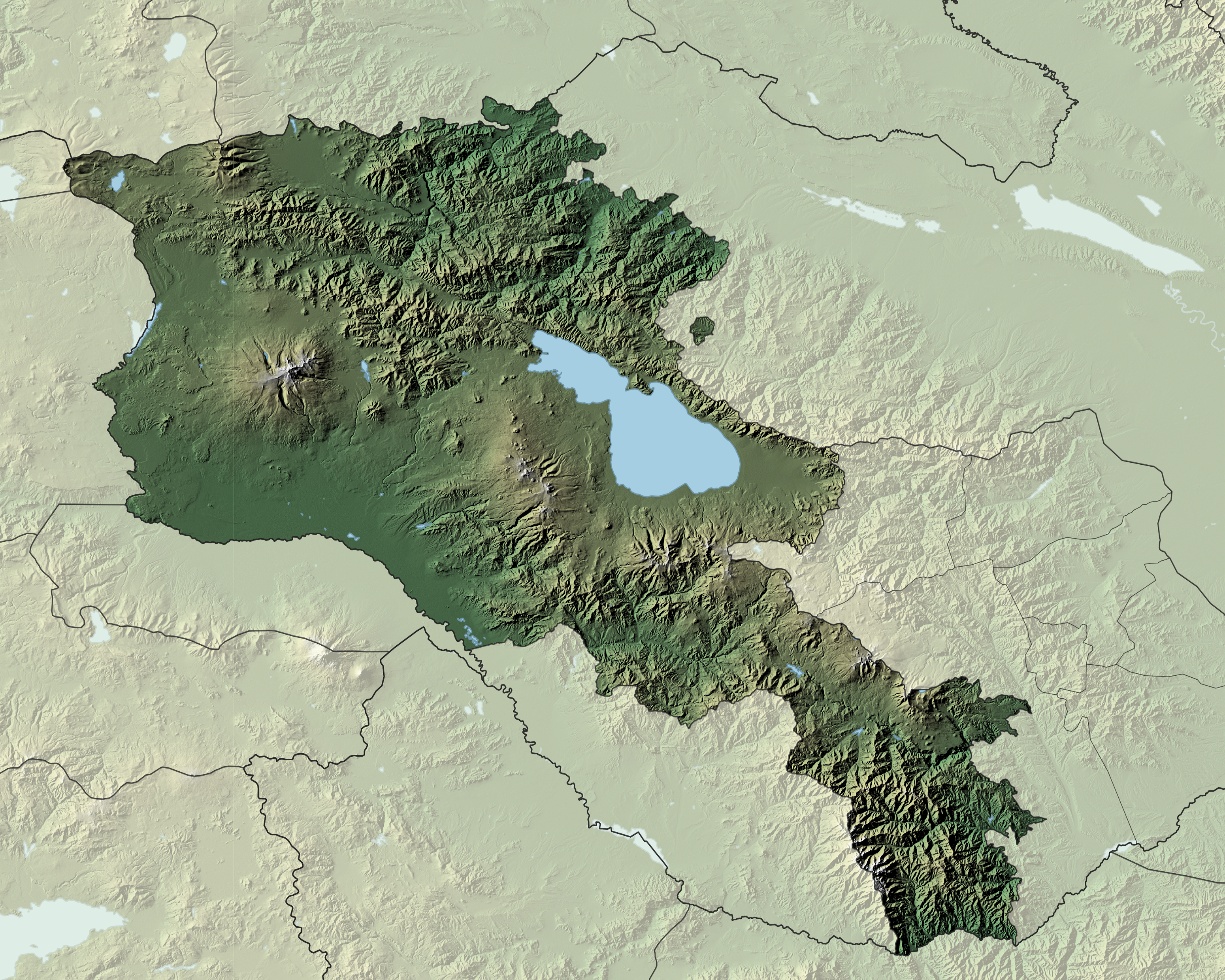 Hillshaded map of Republic of Armenia